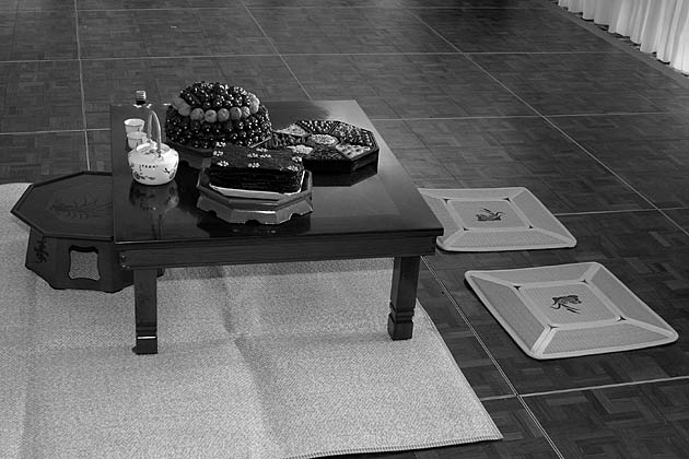 Korean tea ceremony